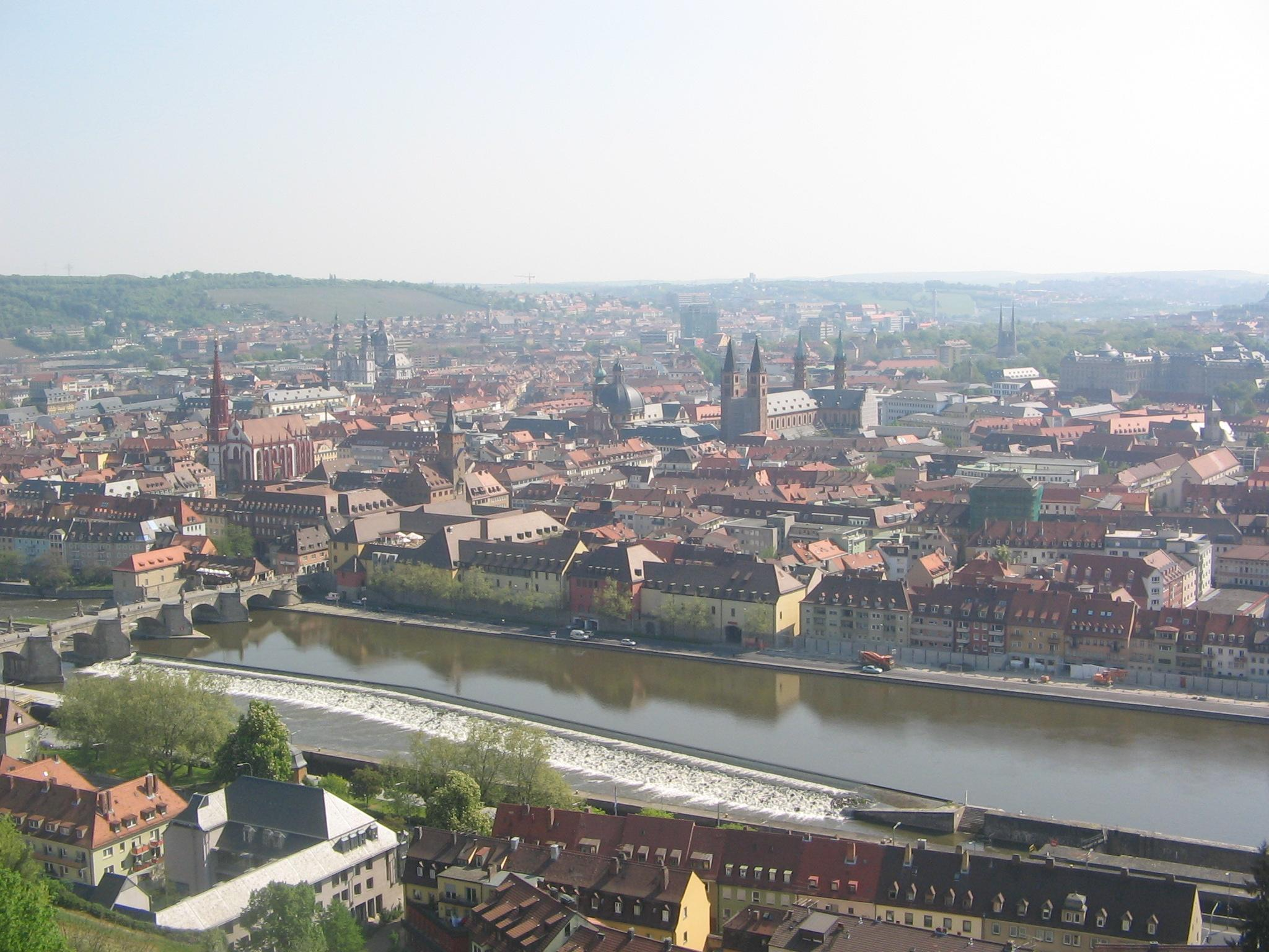 Wuerzburg, Germany, as seen from the Marienberg Fortress